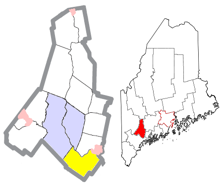 Map of the divisions of Androscoggin County, Maine, United States, with the town of Durham highlighted in yellow. The cities of Auburn and Lewiston are light blue; other towns are white; and pink areas are census-designated places within towns.